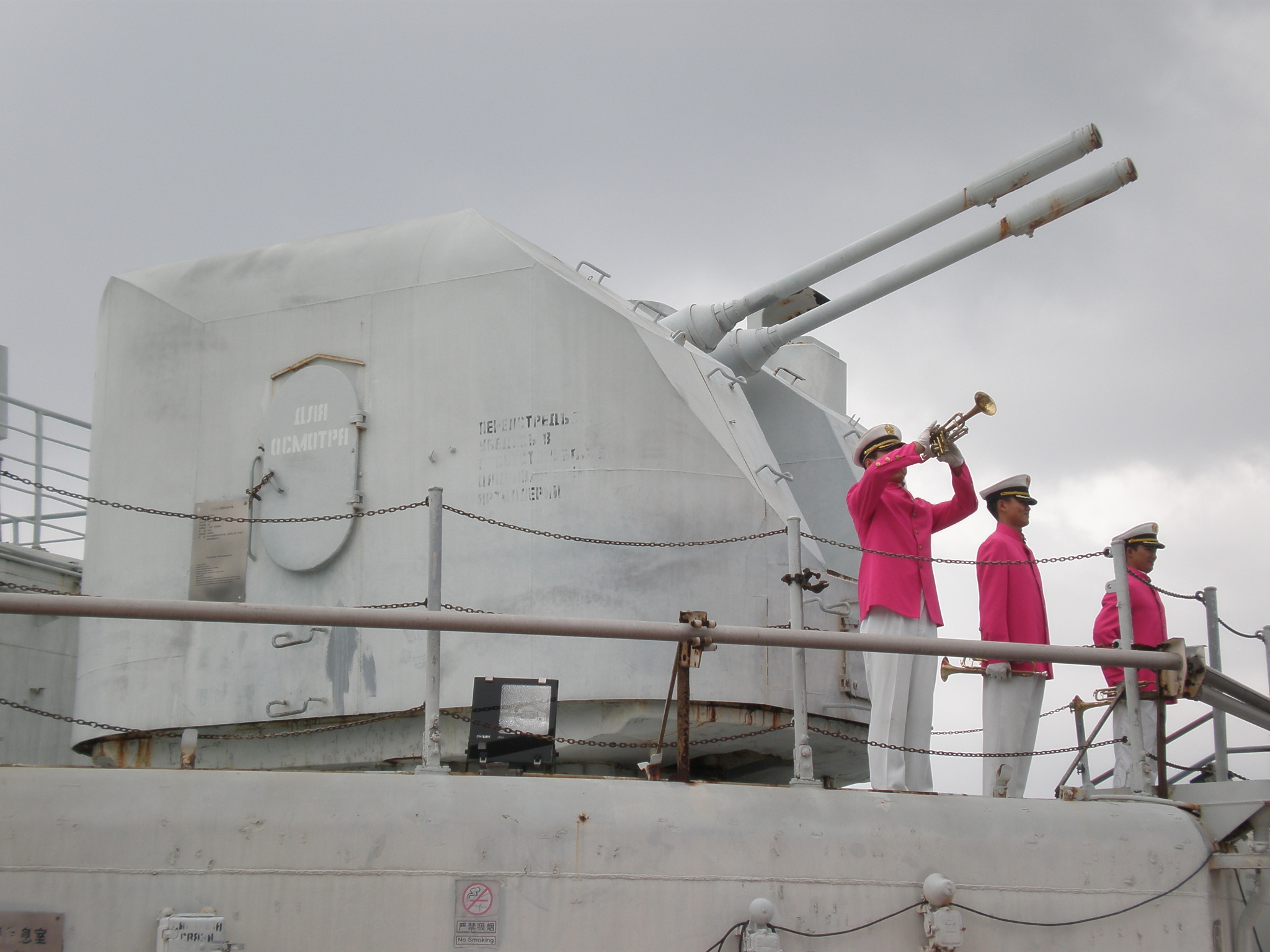 The aft twin 76.2 mm gun of the former Soviet aircraft carrier Minsk. The Minsk is the centerpiece of the Minsk World military theme park in Shenzhen, China.